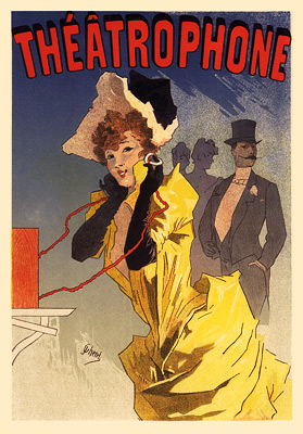 Le Théâtrophone. A poster depicting the théâtrophone